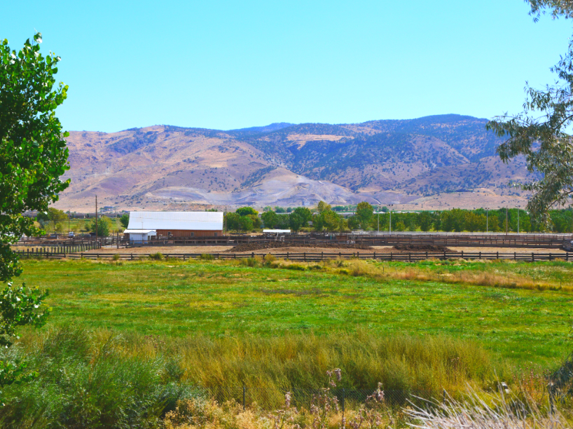 Damonte Ranch Looking toward Truckee Meadows with Damonte Ranch housing development in background.